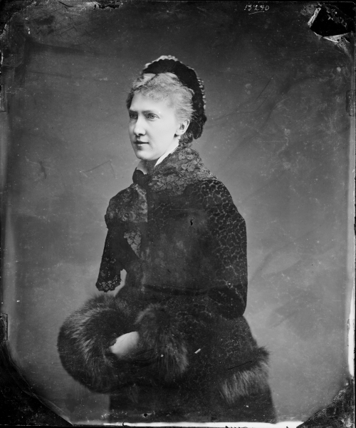 Augusta von Sachsen-Altenburg, Gemahlin Prinz Moritz von Sachsen-Altenburg